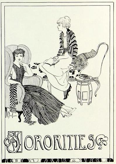 Frontispiece for the Sororities Section of the Minnesota Gopher yearbook, 1916, page 305. Used to introduce the section, and an example of student art from the period.